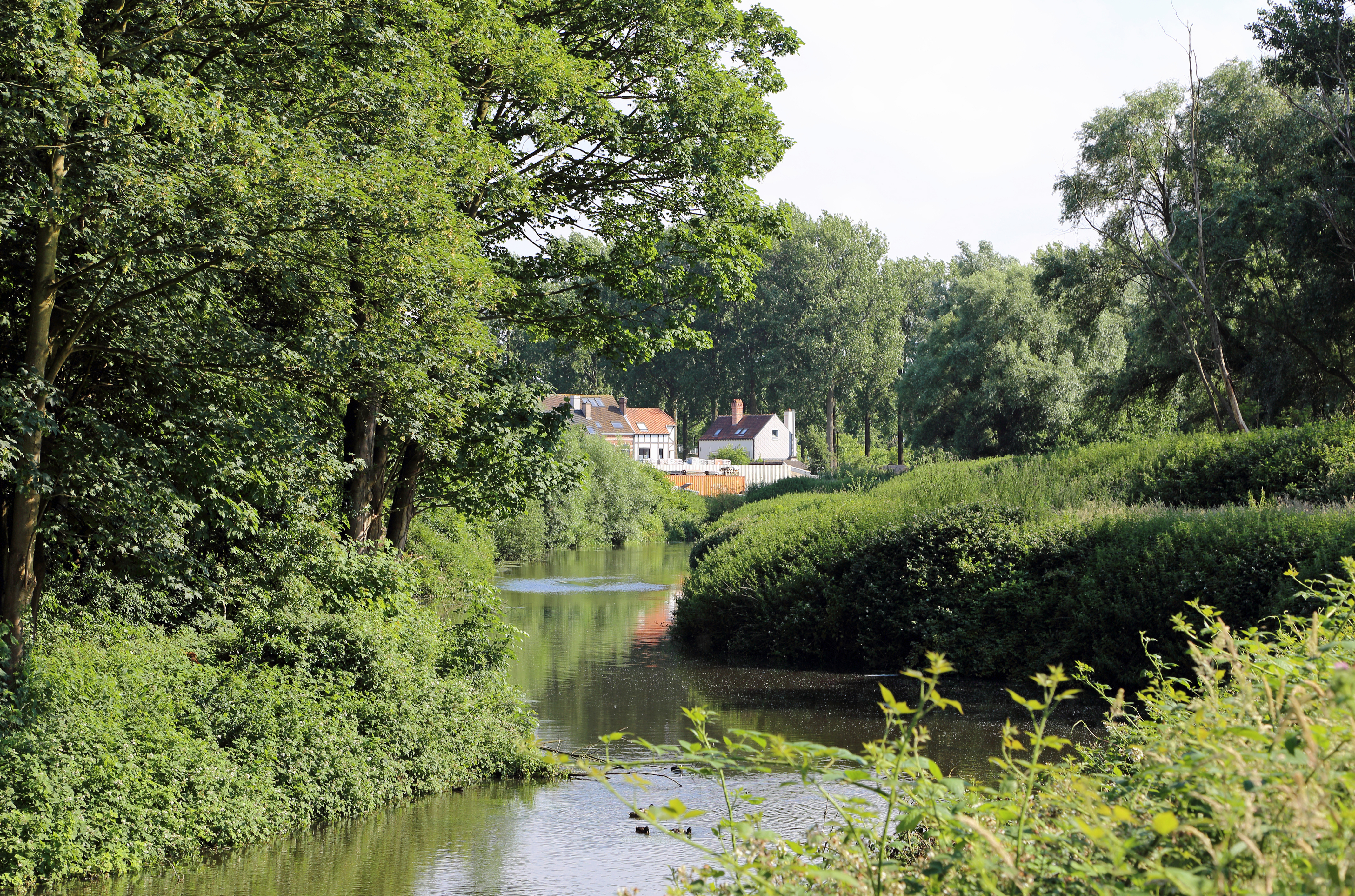 Assebroek (Bruges, Belgium): the Sint-Trudoledeke brook near the Lappersfortstraat and its confluence with the Zuidervaartje canal (foreground)